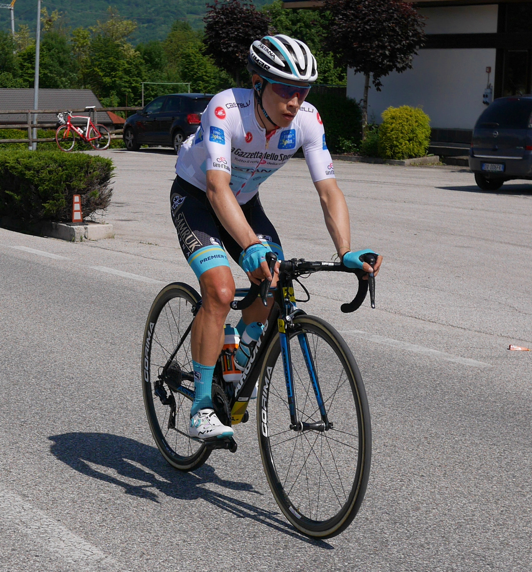 Miguel Angel Lopez (team Astana) Giro d'Italia 2019, Stage 19, wearing White jesrey as leader of young rider classification